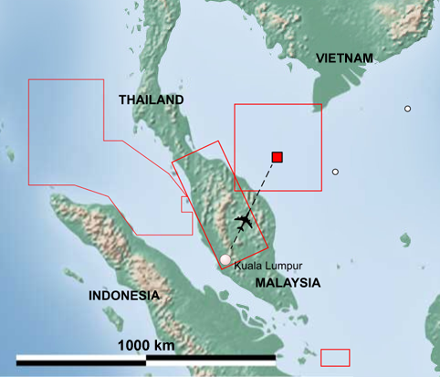 Search areas of Malaysia Airlines Flight 370 (red boxes, white circles are claimed spottings of debris). Derived from File:Malaysia-Airlines-MH370 map detail.png and File:Suche_nach_MH370.svg.